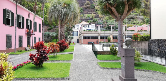 Solar dos Herédias's Garden